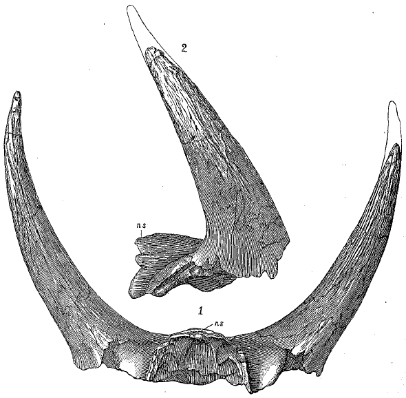 The horn cores O. C. Marsh attributed to Bison alticornis, now Triceratops alticornis (YPM 1871E).